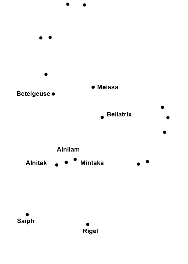 Stars in orion constellation (labelled)